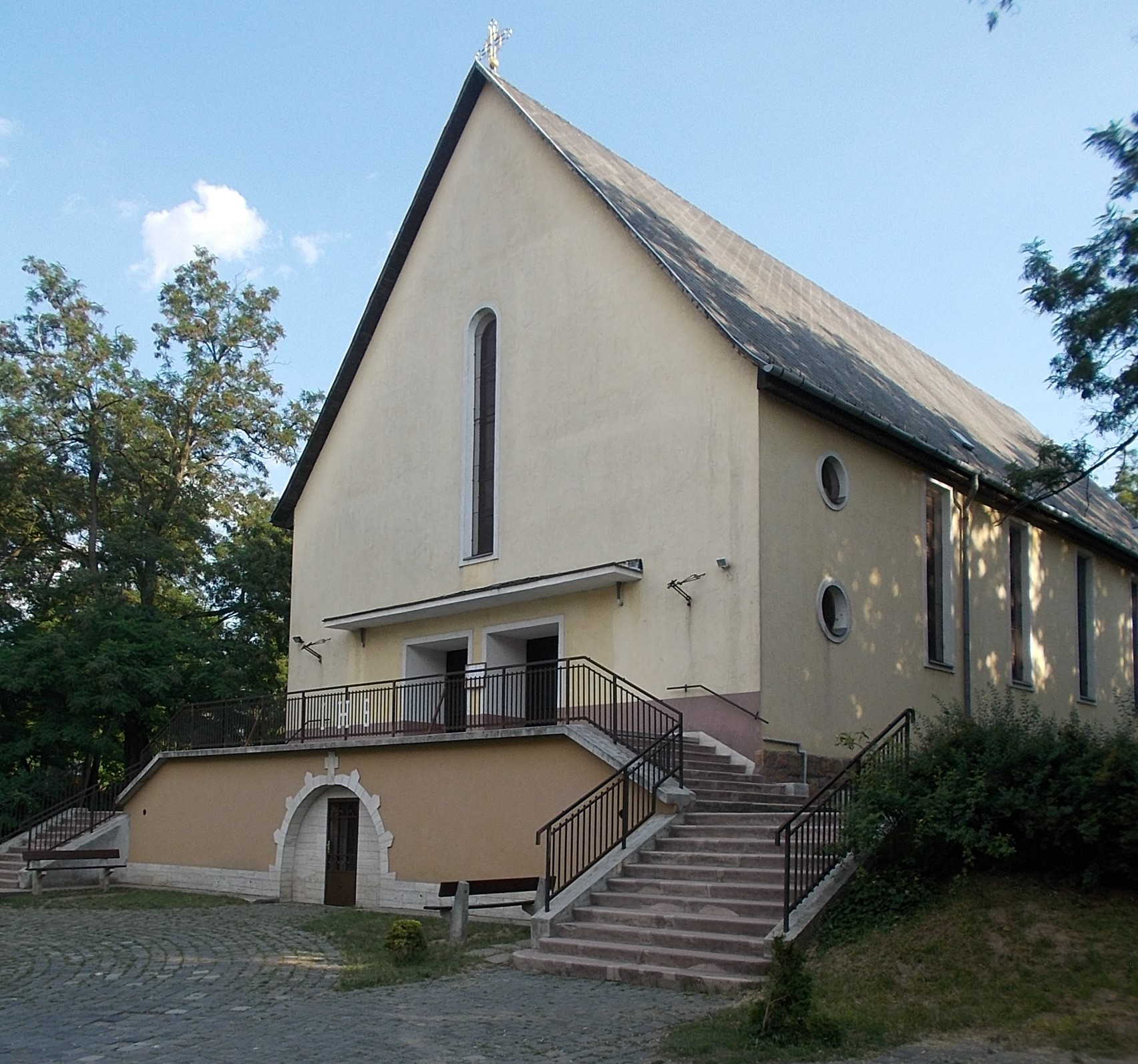 Holy Trinity Parish Church was consecrated in 1931. - Kecskeméti József street, 11th district of Budapest.